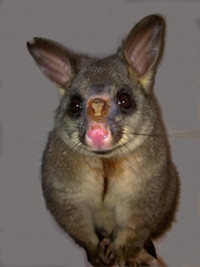 Brushtail possum exhibiting exudative dermatitis in facial region, with necrotised tissue in the nasal region exposing bone. Exudative dermatitis is common in Australian possums and is believed to be the result of immuncompromisation associated with stress. Supervening infection occurs, often of staphylococcal origin. This condition is often seen in young males attempting to assert territory in overcrowded (usually urban) areas. Exudative dermatitis is difficult to treat, and relapses are common.